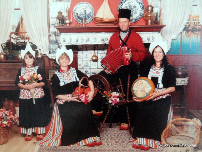 Tourist family in traditional clothing